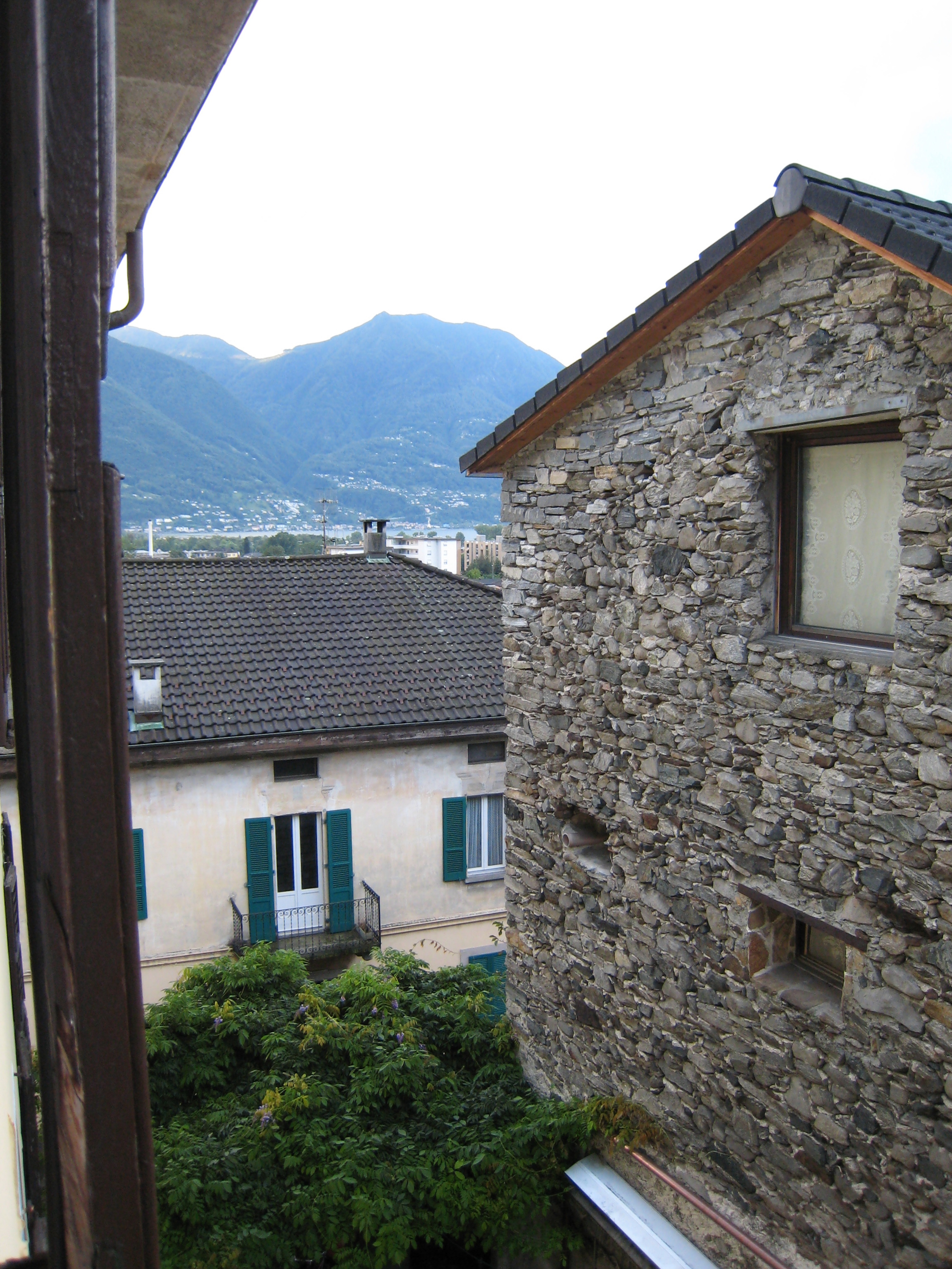 Gordola, Ticino, Switzerland